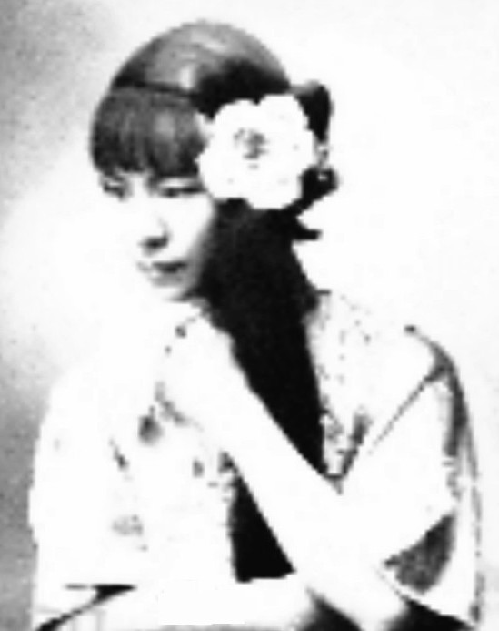 Mr. Tse Sing Nong, Cantonese Opera Actor and Movie Star in 1930. 中文（香港）: 1930年粵劇乾班男花旦、電影演員：謝醒儂（Tse Sing Nong）先生